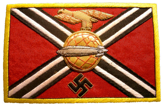 Flag of the Deutsche Zeppelin-Reederei GmbH (1935-1937), the company which operated the passenger airships DLZ127 "Graf Zeppelin" and DLZ139 "Hindenburg" The Cooper Collection of Zeppelin Postal History